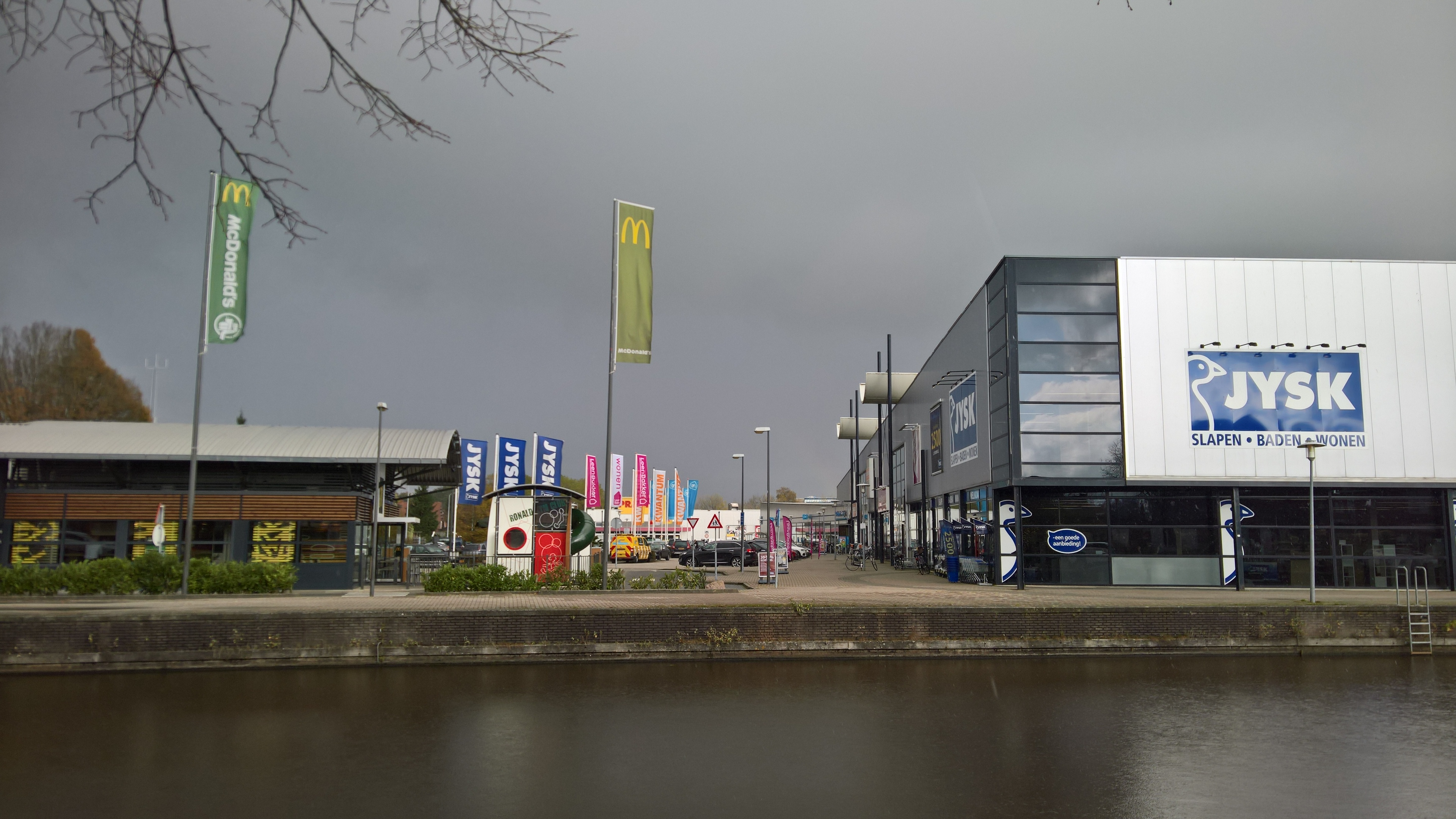 The shopping 🛒 area of posttil in Winschoten, Groningen.